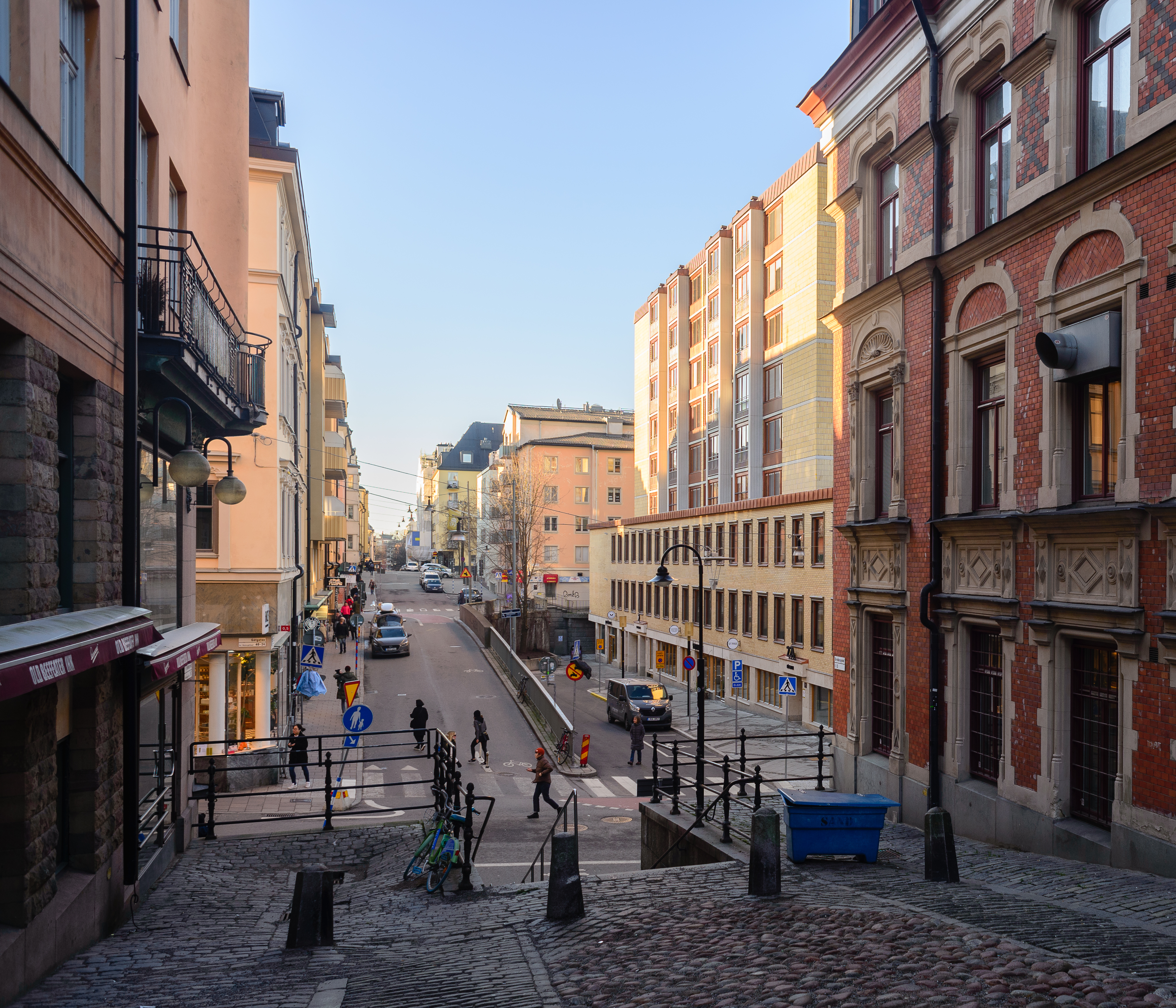 Urvädersgränd and Sankt Paulsgatan.